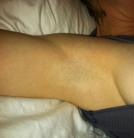 Shaved armpit of a woman